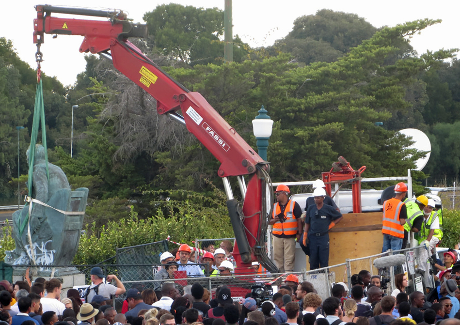 A statue of Cecil John Rhodes was removed from University Of Cape Town on 9 April 2015 after concerted student protest. This is the afternoon when the statue was removed.